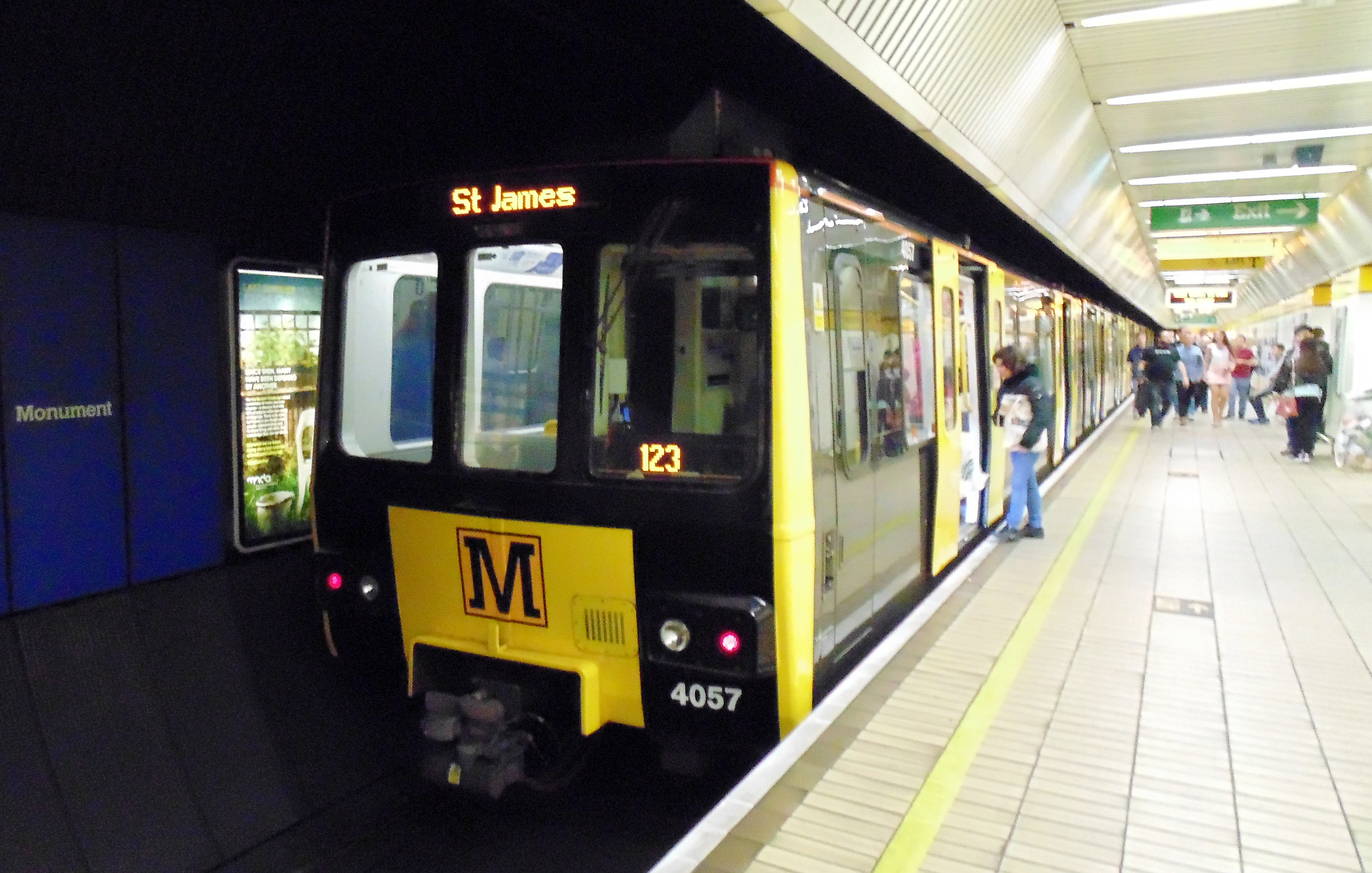 went for a trip to Newcastle for a day great place